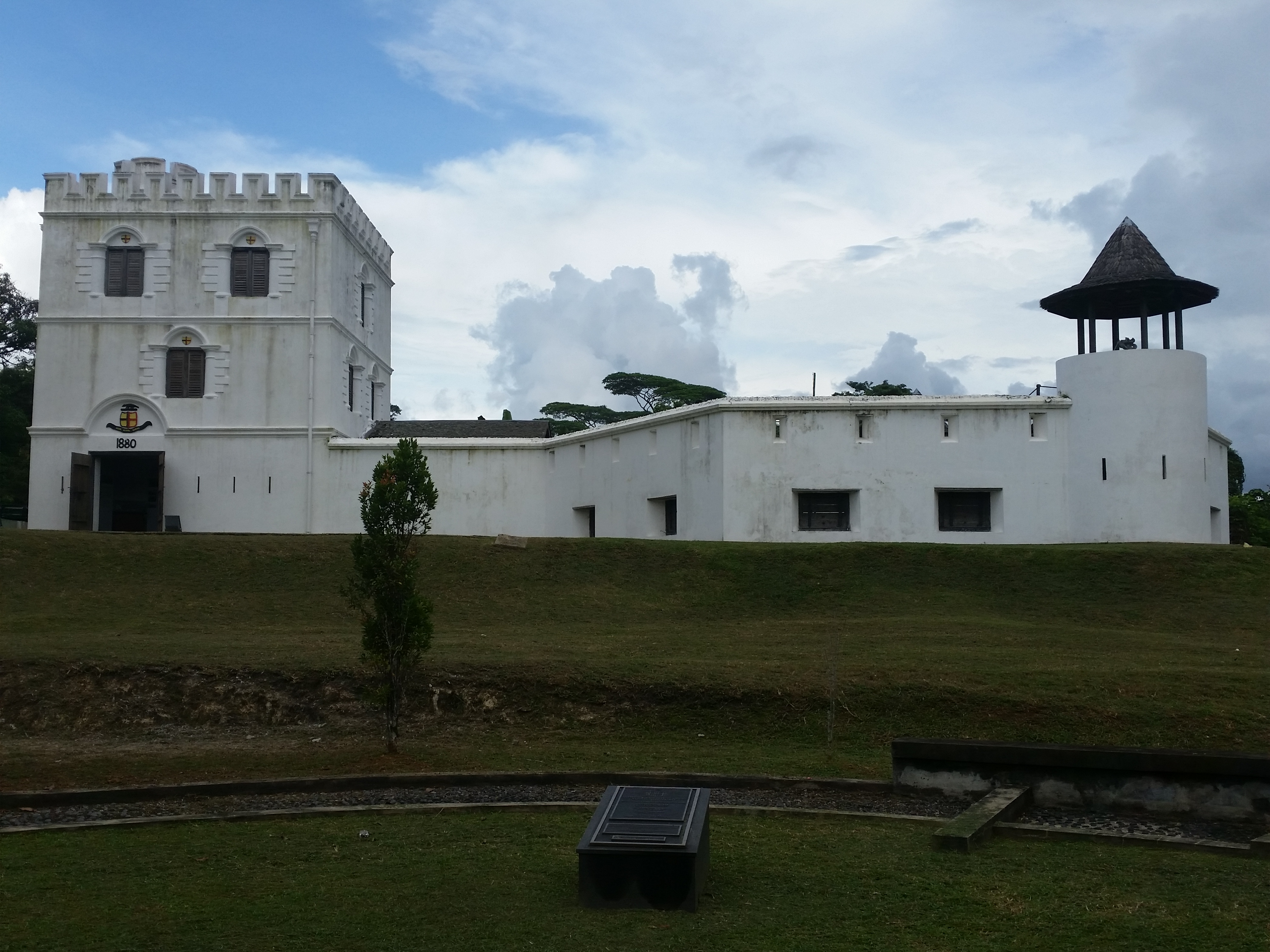 Fort Margherita